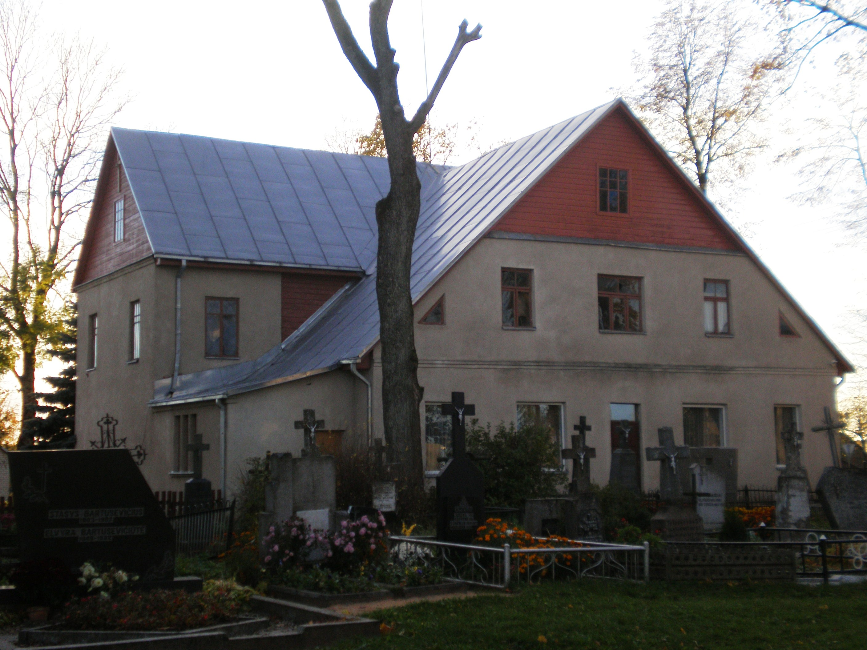 The church of Kulva